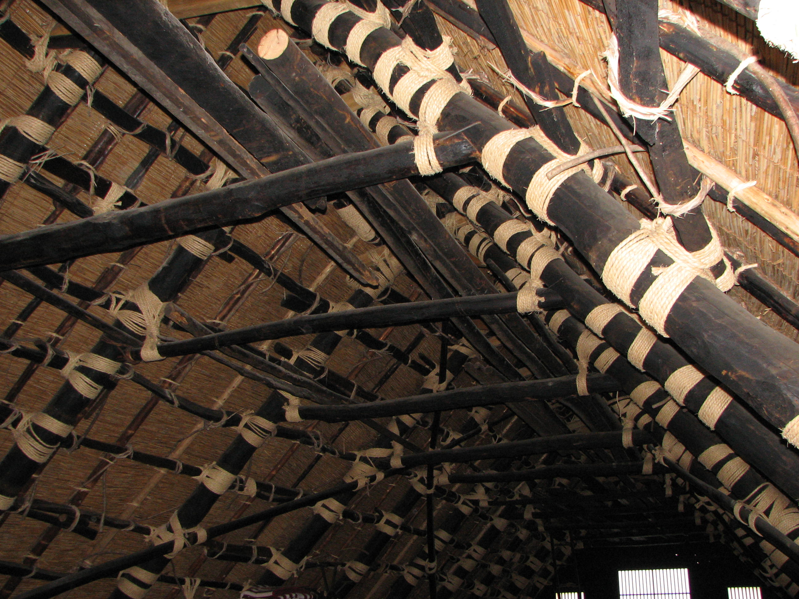 Gassho-zukuri Wada House, Ogimachi Village, Shirakawa-go, Gifu Prefecture, Japan